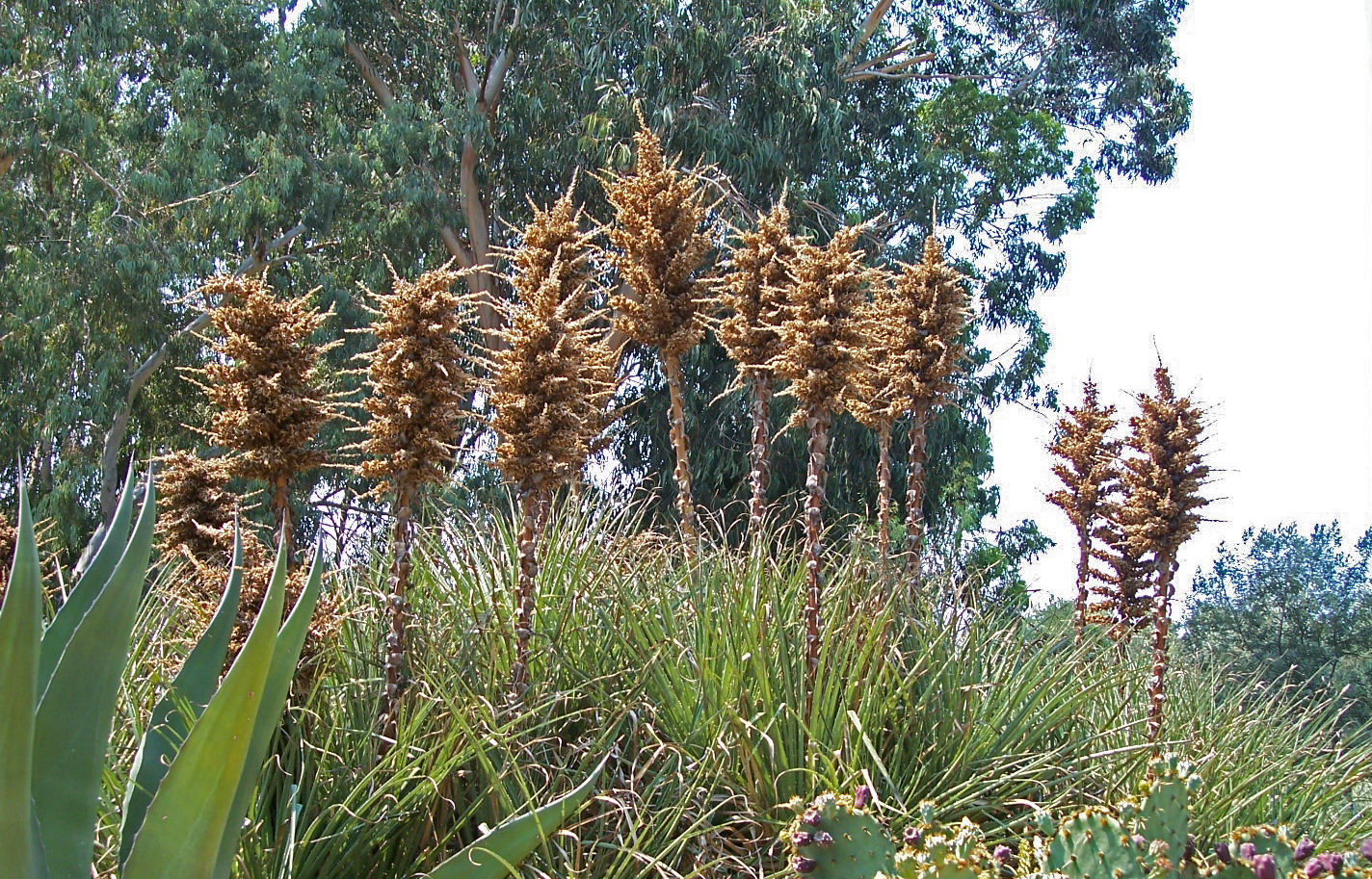 Species Puya chilensis Genus Puya Familia Bromeliaceae Location Botanical Garden on Lokrum isle (Croatia)